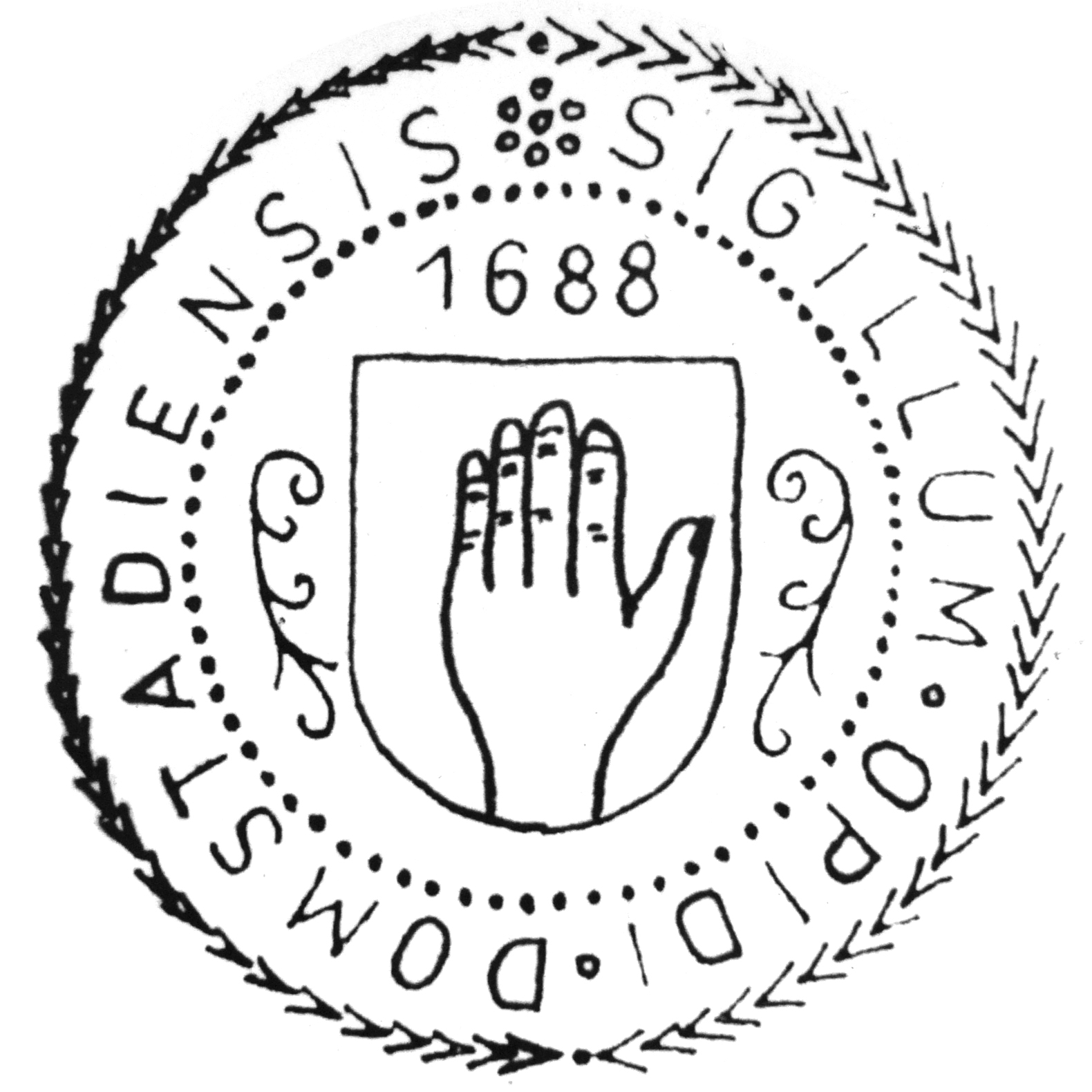 Seal of Domašov nad Bystřicí village (Czech Republic)..